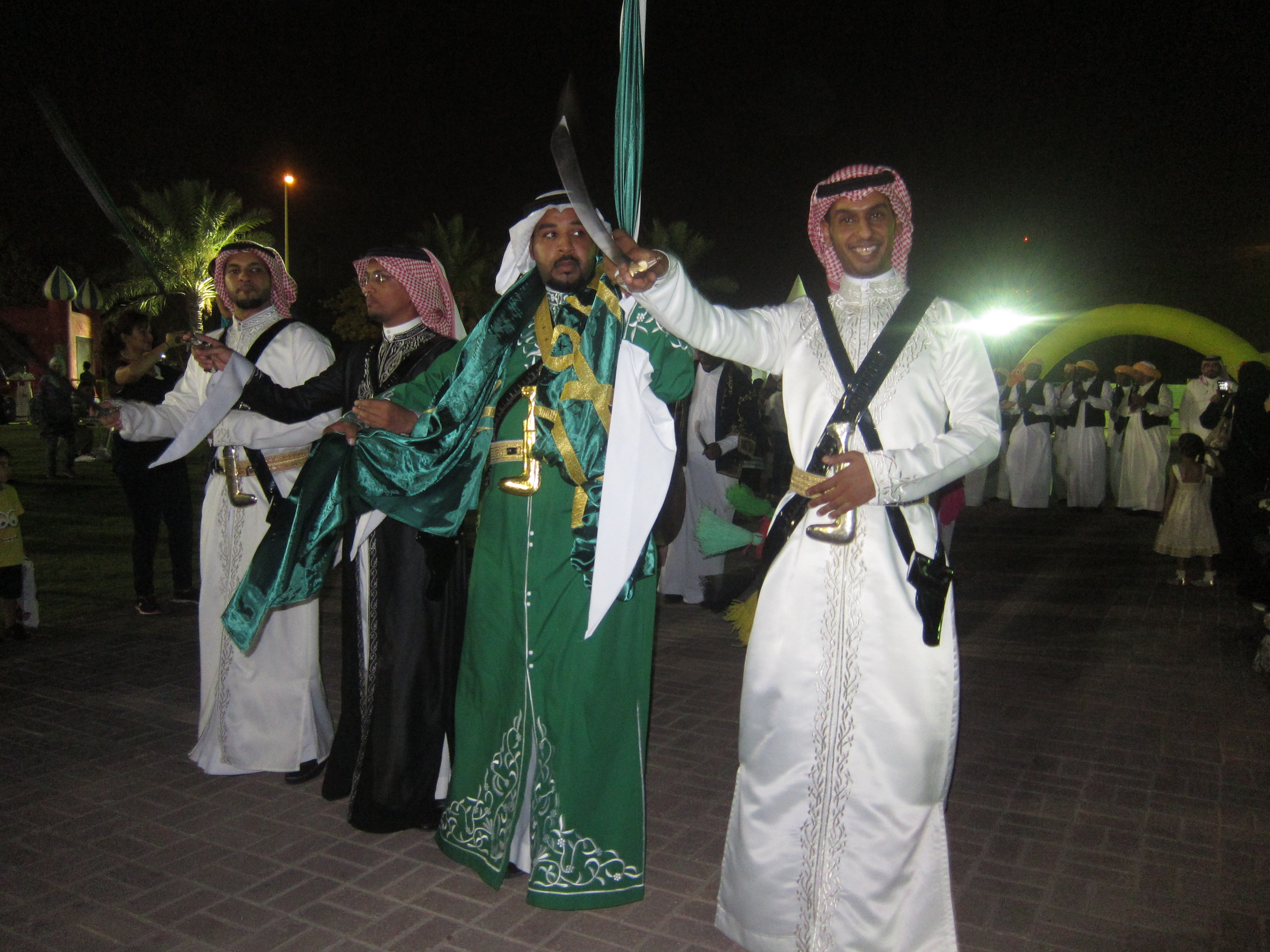 Saudi Culture - സൗദി സംസ്കാരം